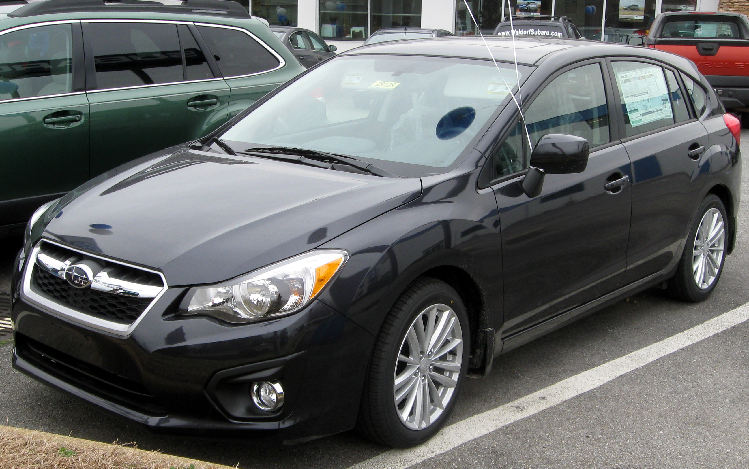 2012 Subaru Impreza photographed in Waldorf, Maryland, USA.